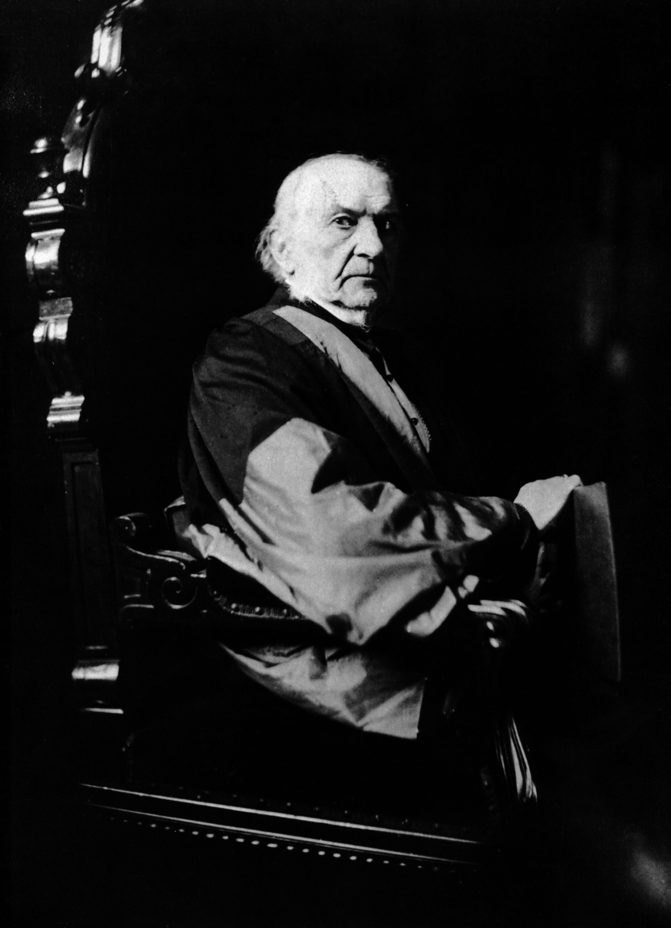 William Ewart Gladstone (1809-1898). Albumen print 19.7 x 14.2 cm.